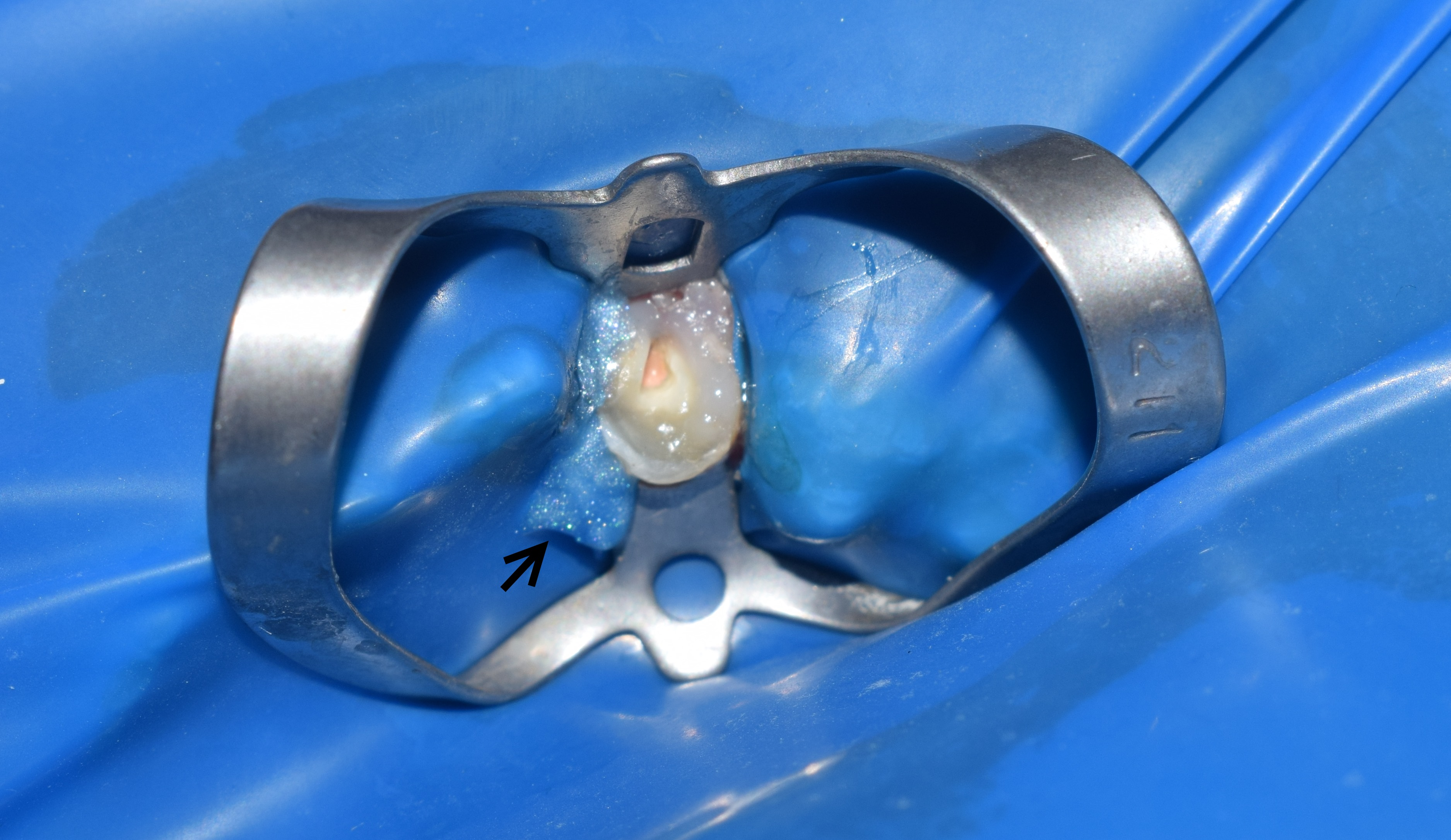 A caulking agent to seal the gaps between the tooth and the rubber dam.